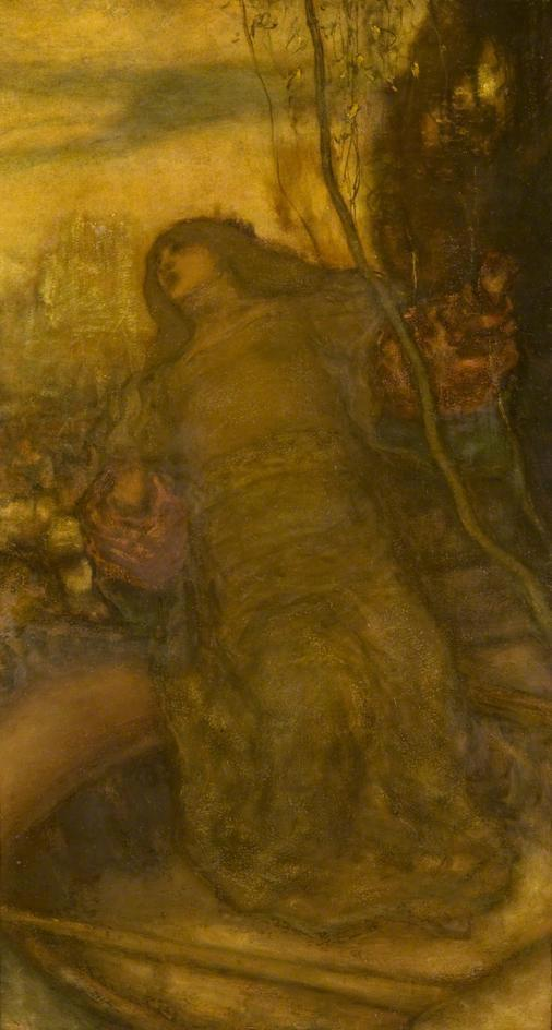 Lady of Shalott